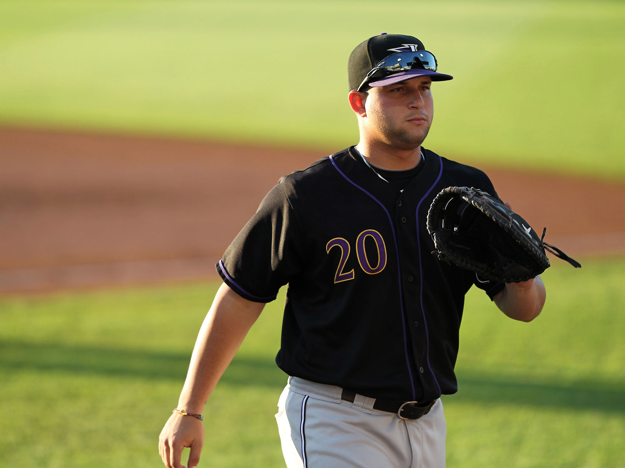 Yonder Alonso